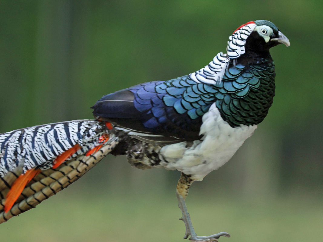 Male Lady Amherst's Pheasant (Chrysolophus amherstiae) - Sylvan Heights Waterfowl Park, North Carolina. The background has been replaced.